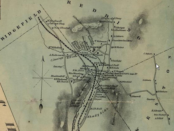 Georgetown area of Connecticut in 1856. At this time, the name Georgetown was not in use. However, the earliest buildings of the Gilbert and Bennett wire mill are shown. Gilbert and Bennett's existence was largely responsible for the growth, economy, and local identity of Georgetown.